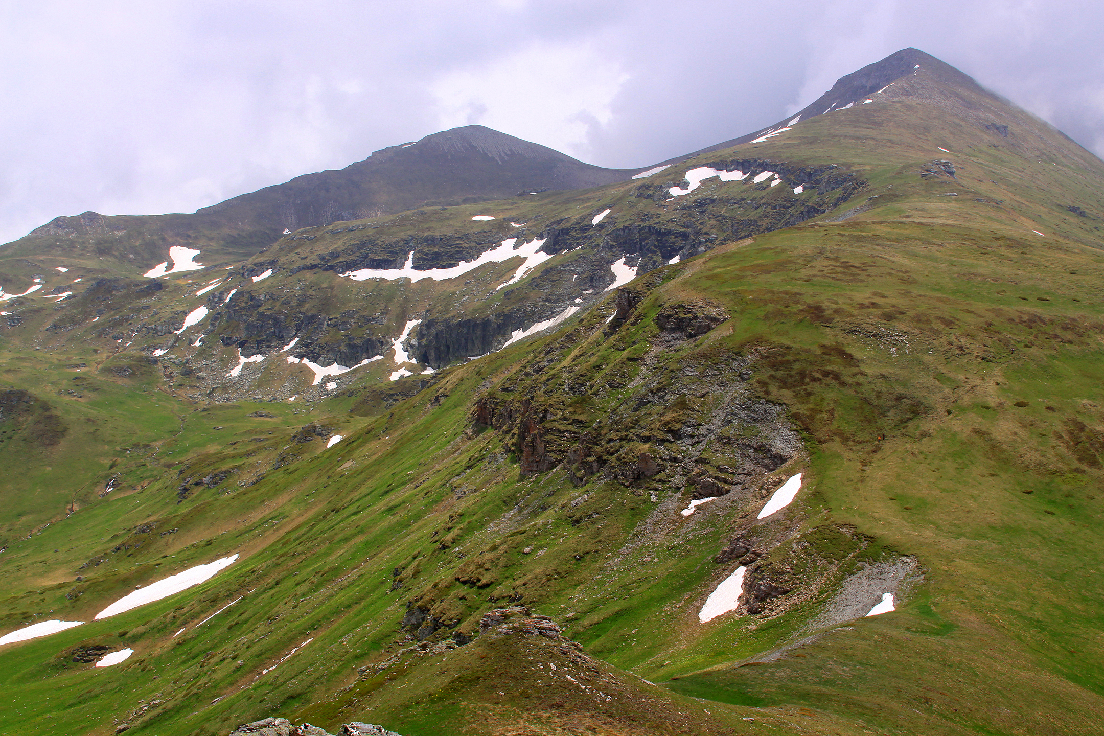 Gjini Beg mountain and Tërpeznica peak 2610 m alt on the top right. This peak is one of the 5 highest summits in Kosovo.